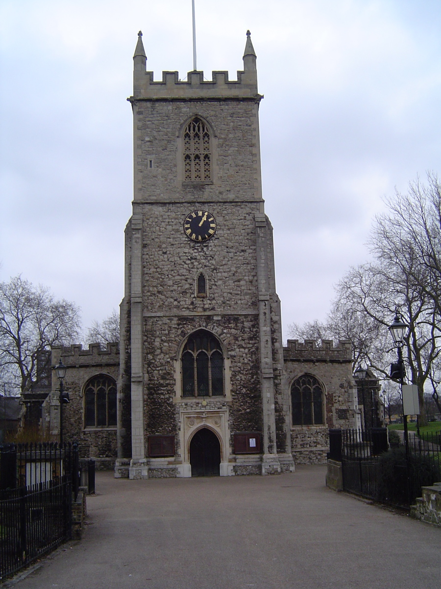 St Dunstan and All Saints parish church, High Street, Stepney, London E1, seen from the west